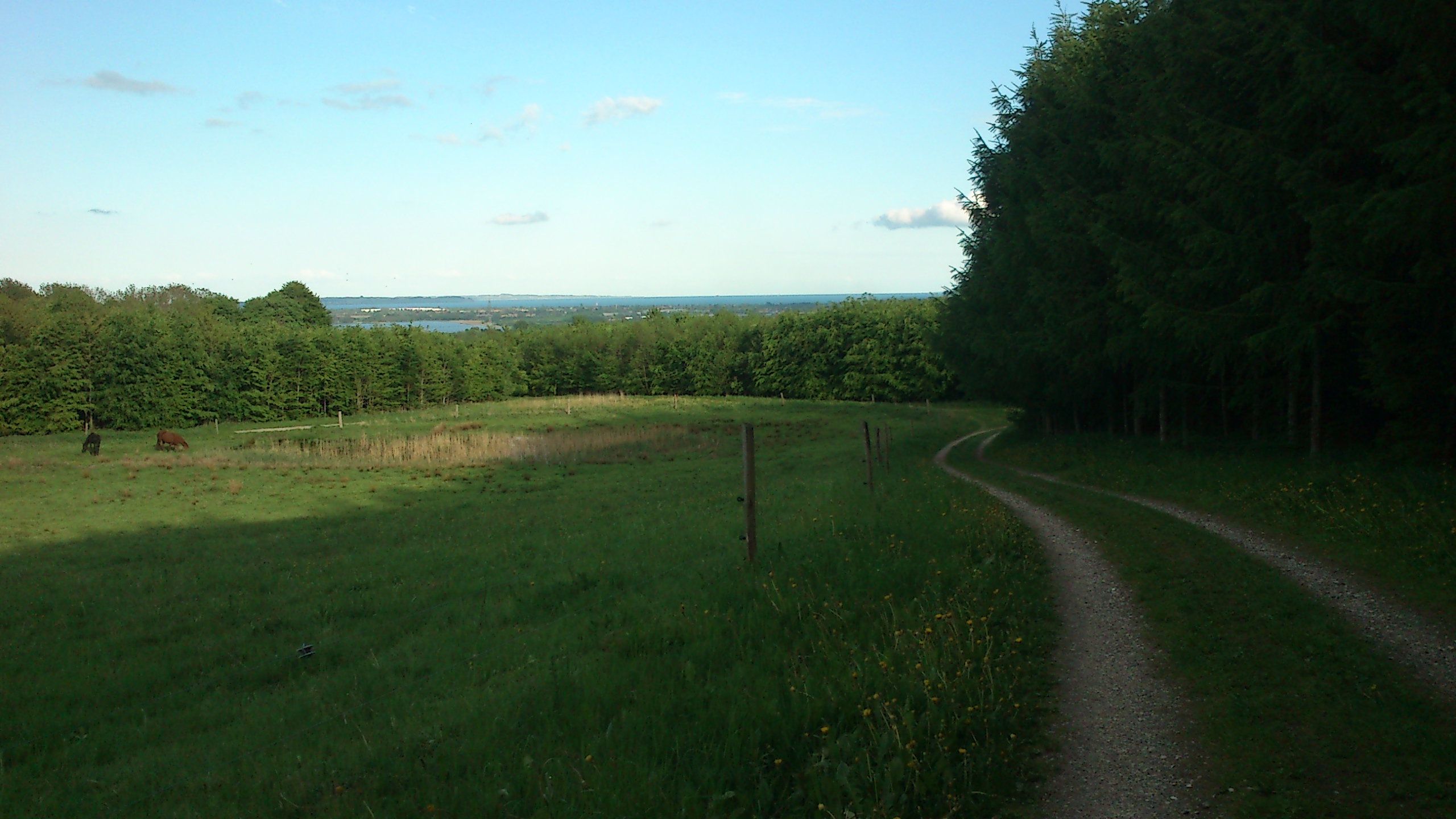 Scenic view of the Egå valley and the Bay of Aarhus, seen from Lisbjeg Forest.